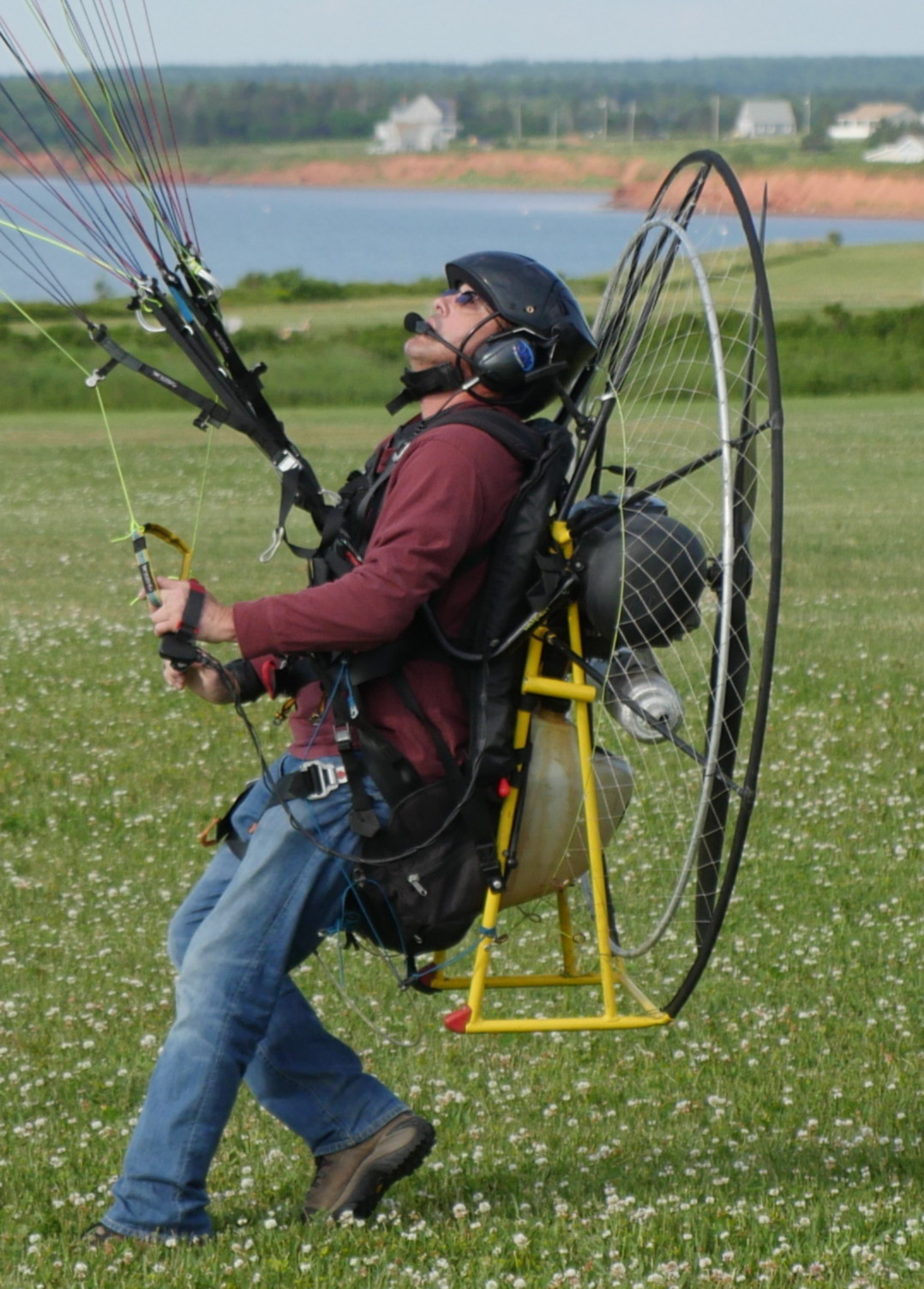 Tim Kaiser wearing a paramotor showing how the seat is folded up for easy maneuvering while upright. Prince Edward Island, CA.